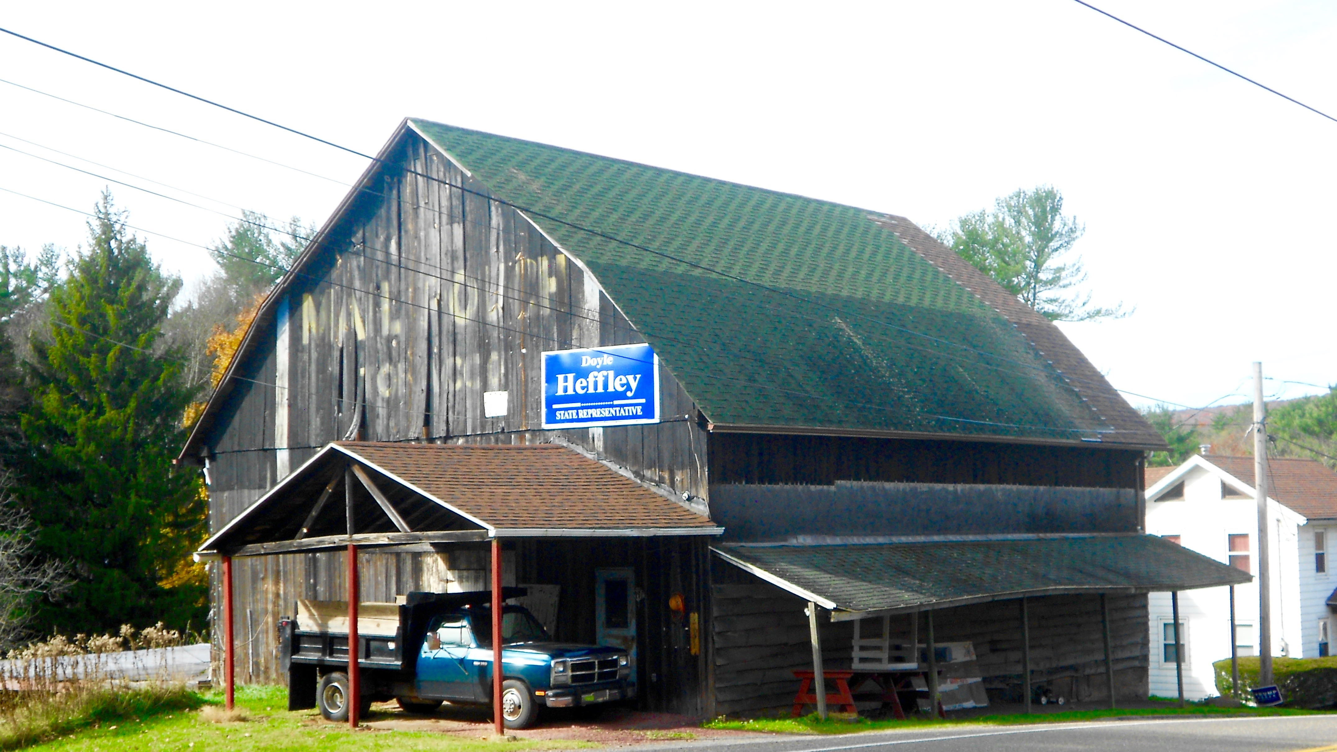 Old barn with a faded "Mail Pouch" ad in or near the village of Hudsondale, Packer Township, Carbon County, Pennsylvania